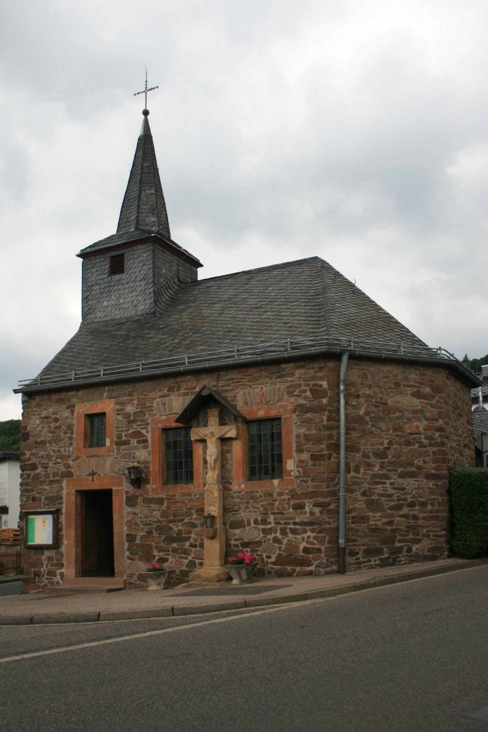 Cultural heritage monument No. 36 in Heimbach